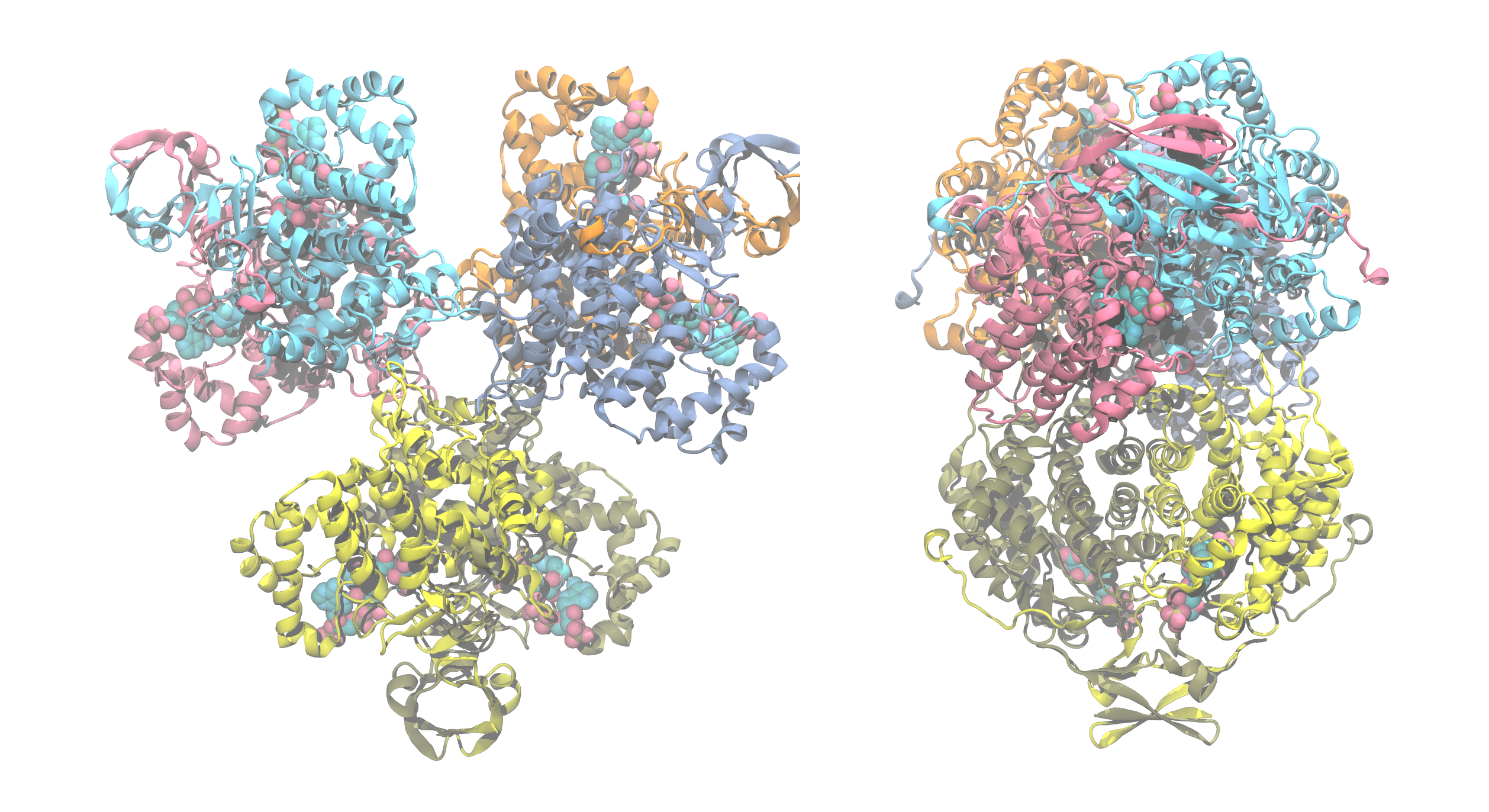 Ribbon model of citrate synthase hexamer (front/side view) of Acetobacter aceti with oxalacetate and CoA-SH analog as balls, after PDB 2H12. Ref.: Francois, J.A., Starks, C.M, et al.: Structure of a NADH-insensitive hexameric citrate synthase that resists acid inactivation. In: Biochemistry 45(2006): 13487-13499. PMID 17087502 This image was created with VMD